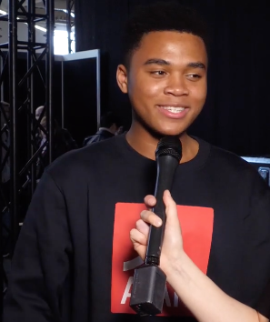 Chosen Jacobs at Comic-Con Germany 2019